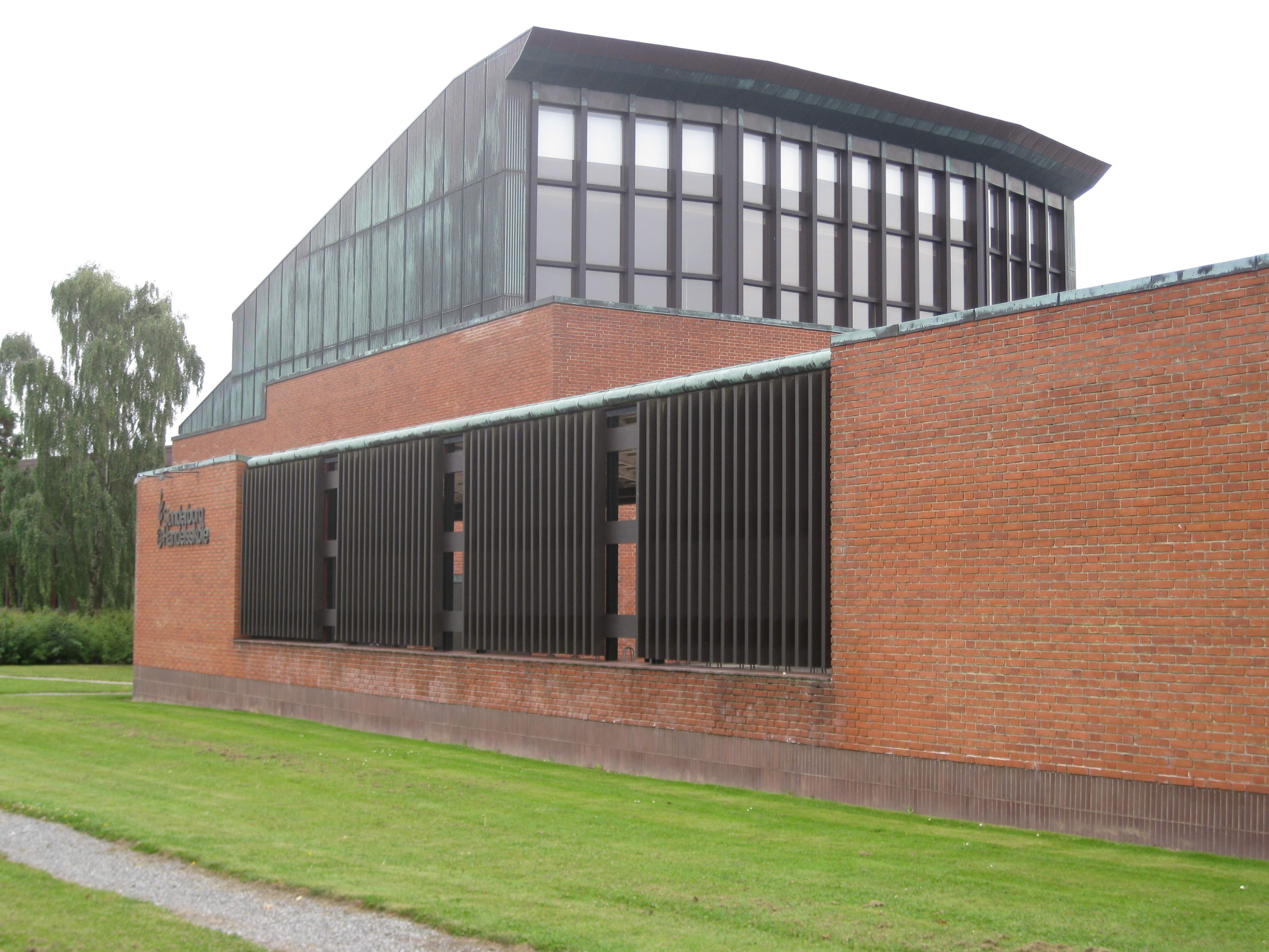 Business College Syd, Sønderborg, Denmark. Great Hall